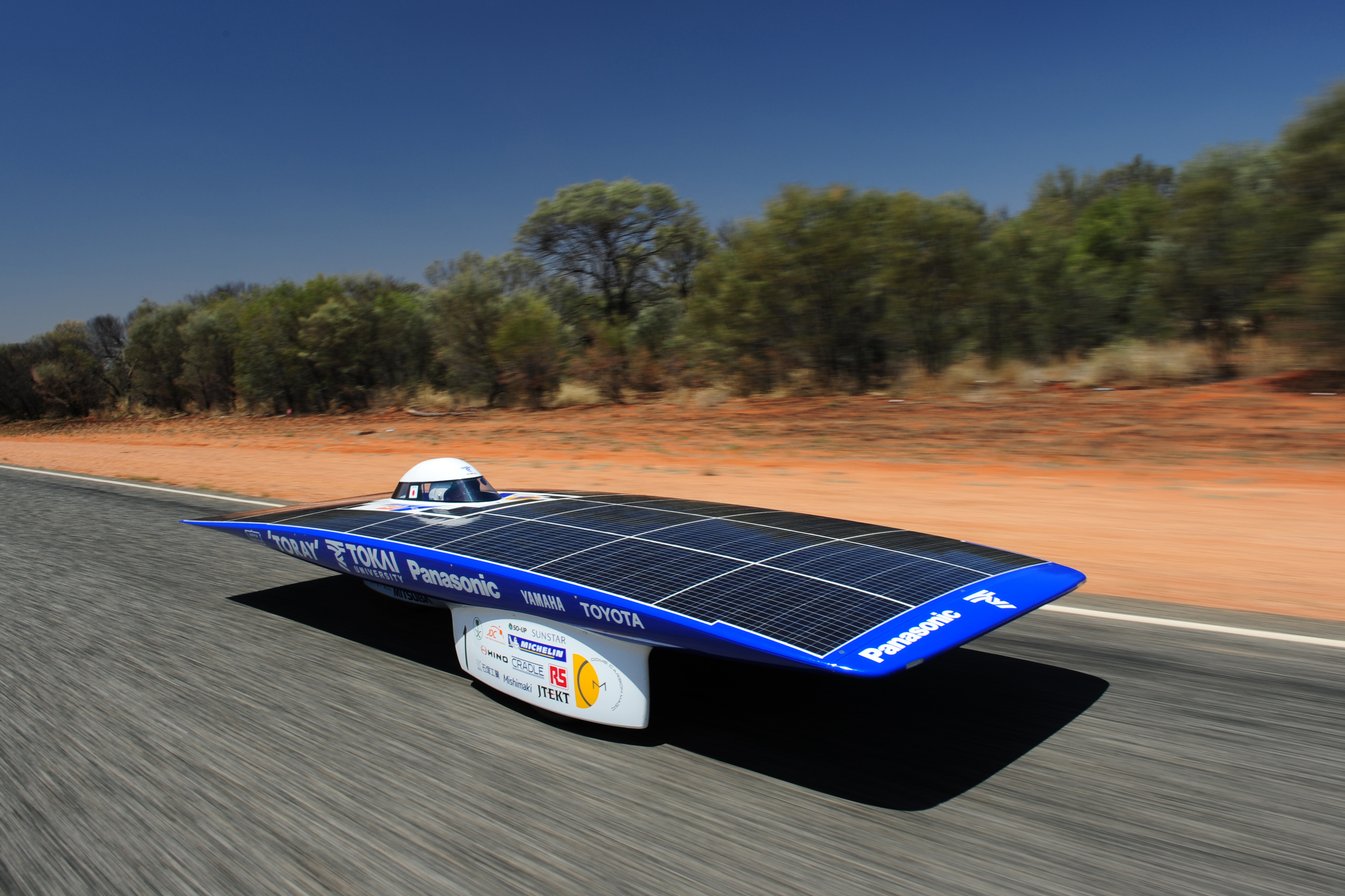 Solar Car "Tokai Challenger" which became a winner of 2011 World Solar Challenge in Australia.